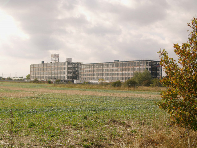 Bata Shoes factory, East Tilbury, Thurrock, England. Built in 1932 by Thomas Bata, a Czechoslovakian shoe manufacturer, this factory reflects the 'modernist' style of architecture. An article on the background to why a Czech wanted to build in Essex can be found in this Guardian article.